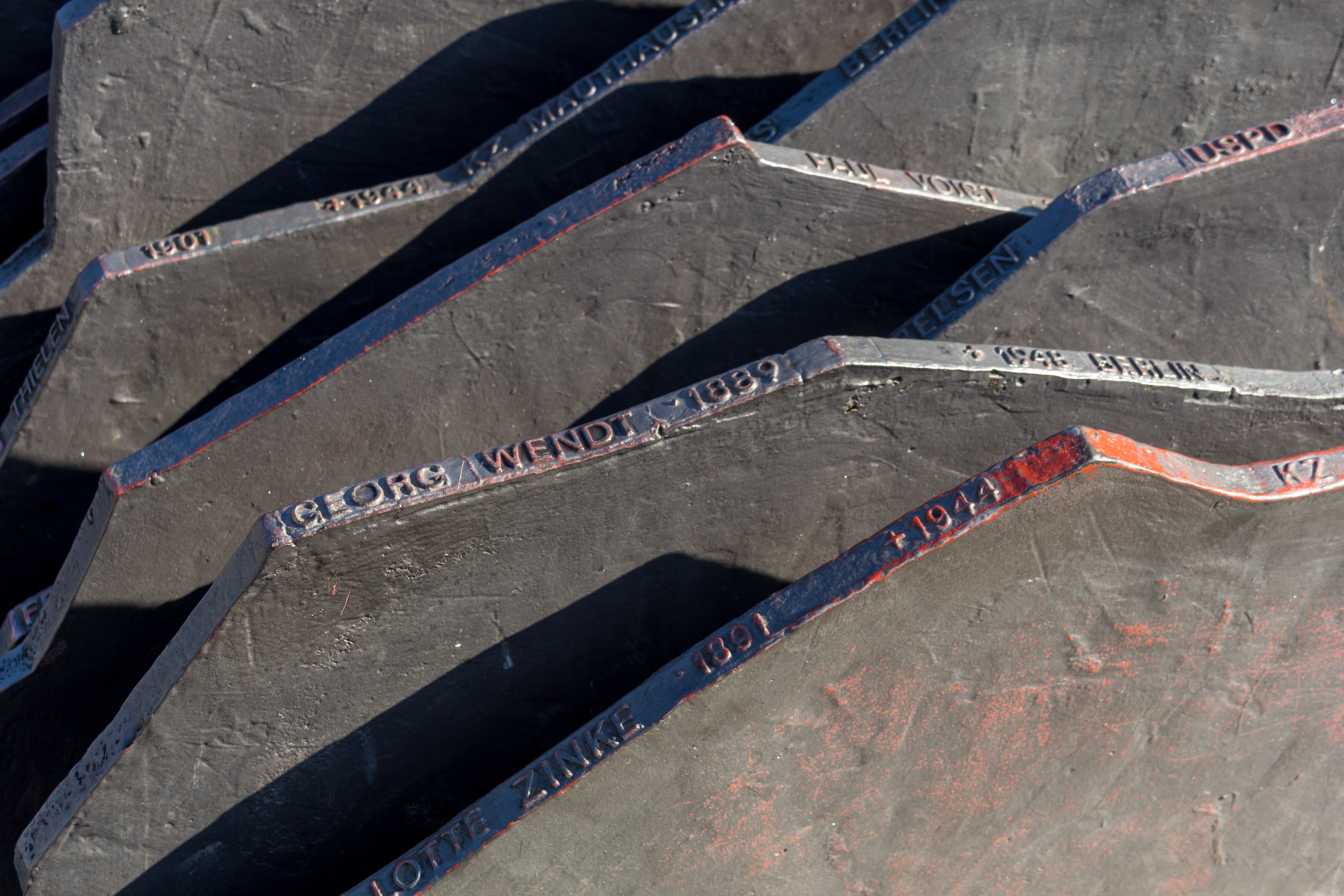 The memorial to the 96 Reichstag members of the opposition parties killed by the Nazis, outside the Reichstag Building in Berlin, Germany.